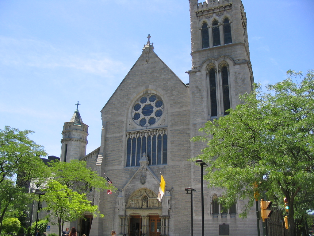 photo of the Cathedral of the Immaculate Conceptionin Syracuse, NY, taken by me on June 12, 2004